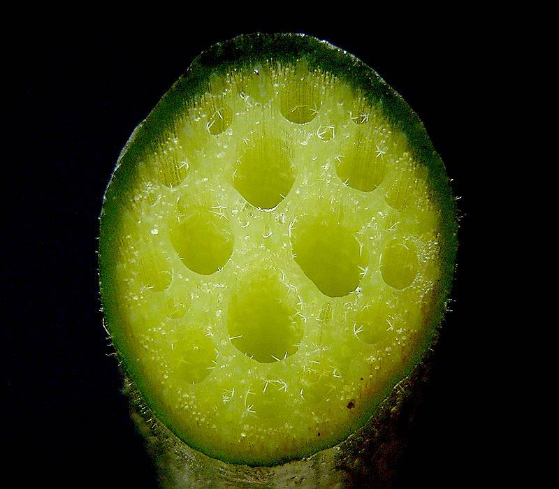 Nymphaea: petiole cross section